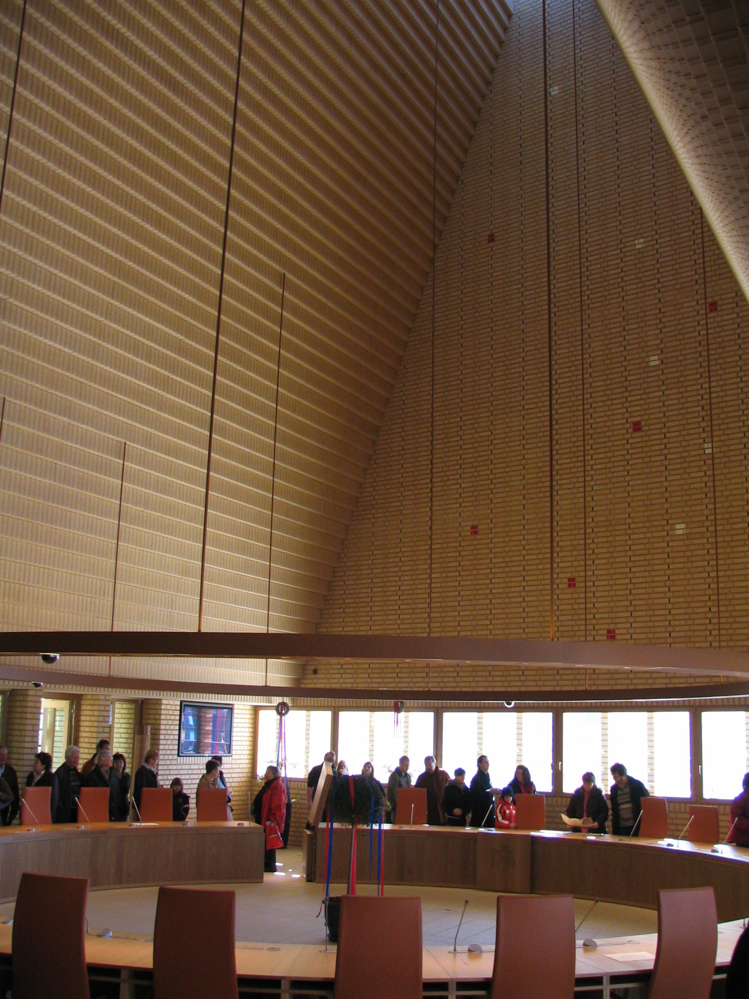 Inside of the new Parliament Building of Liechtenstein in Vaduz. Day of open doors for the public.